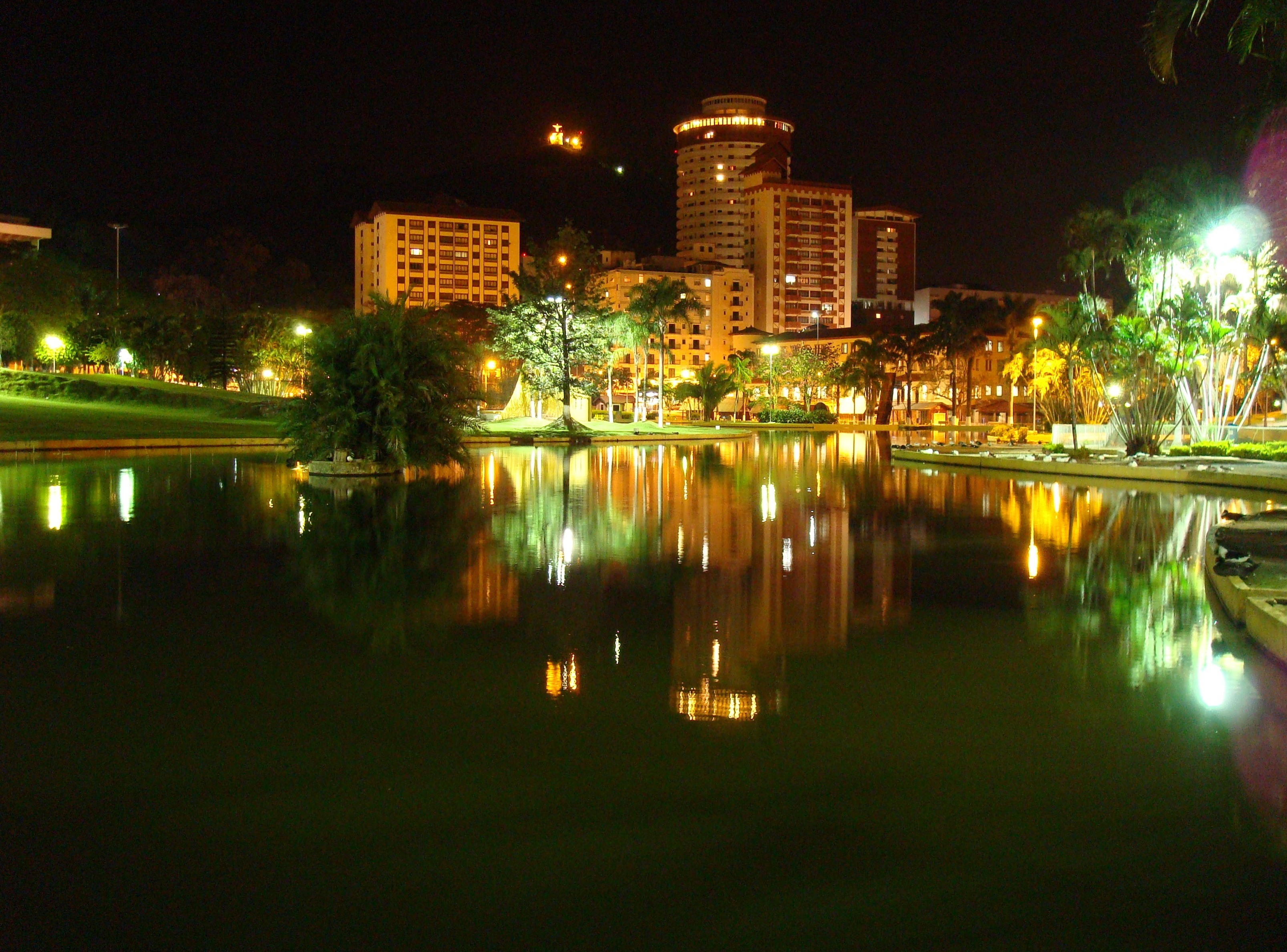 Águas de Lindóia - lake